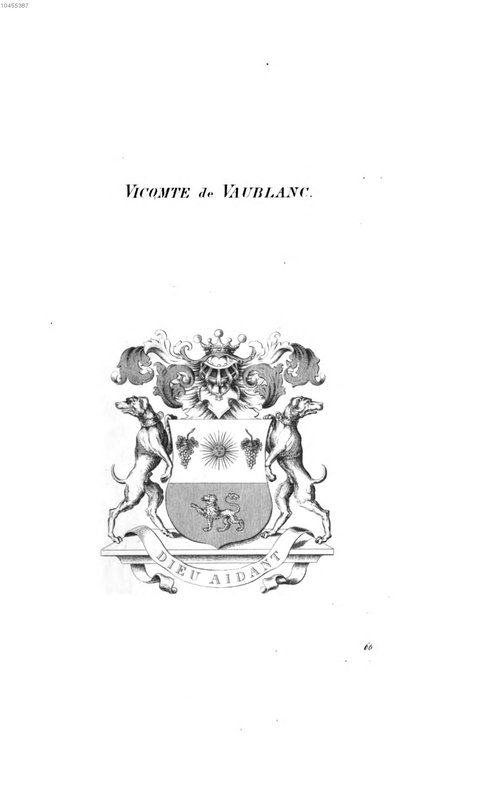 Wappen Vaublanc - Tyroff HA.jpg